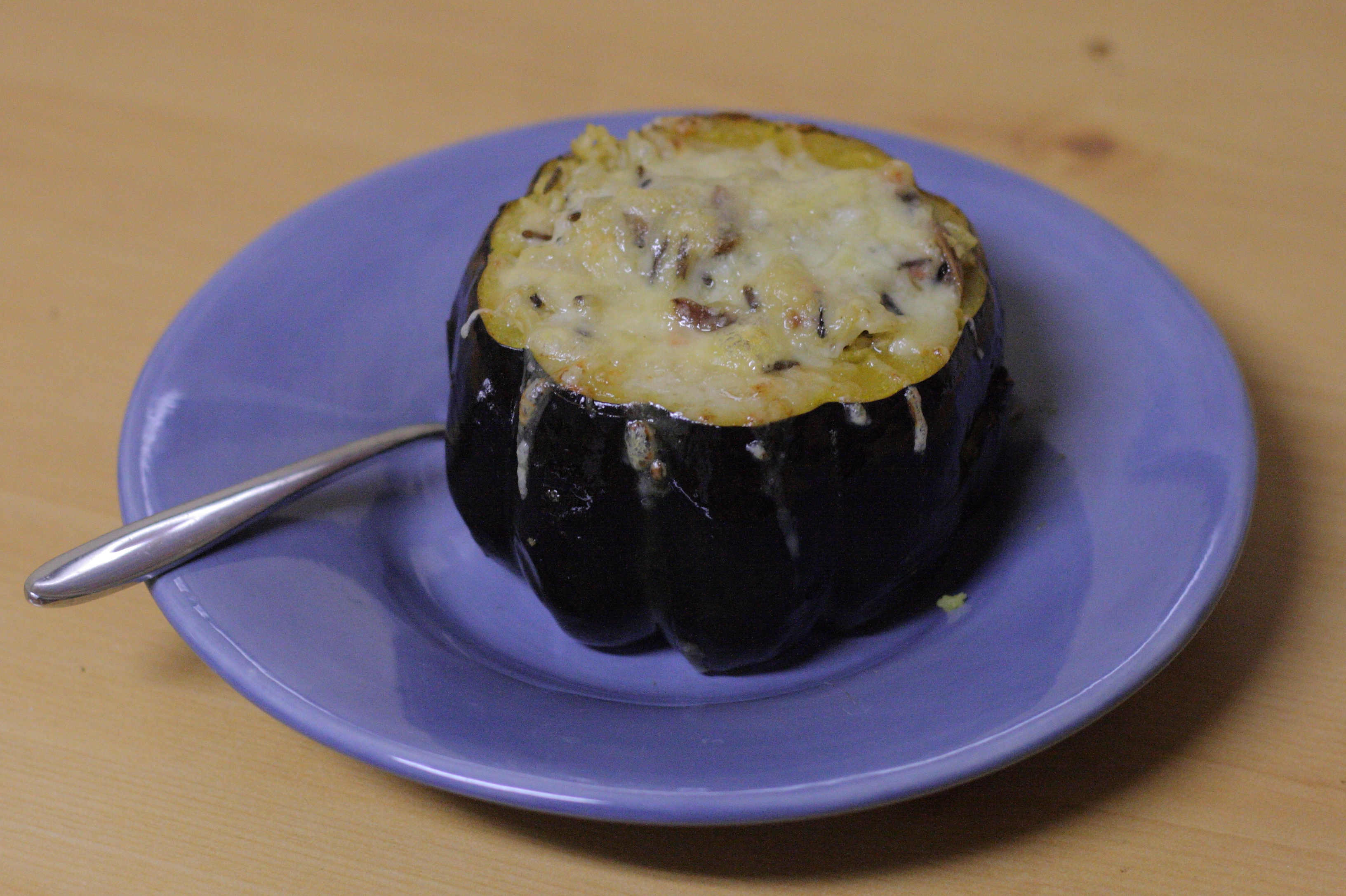 Stuffed acorn squash topped with gruyère, made according to Melinda's recipe